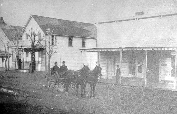 Buggy outside the first post office in Cloverdale, California.